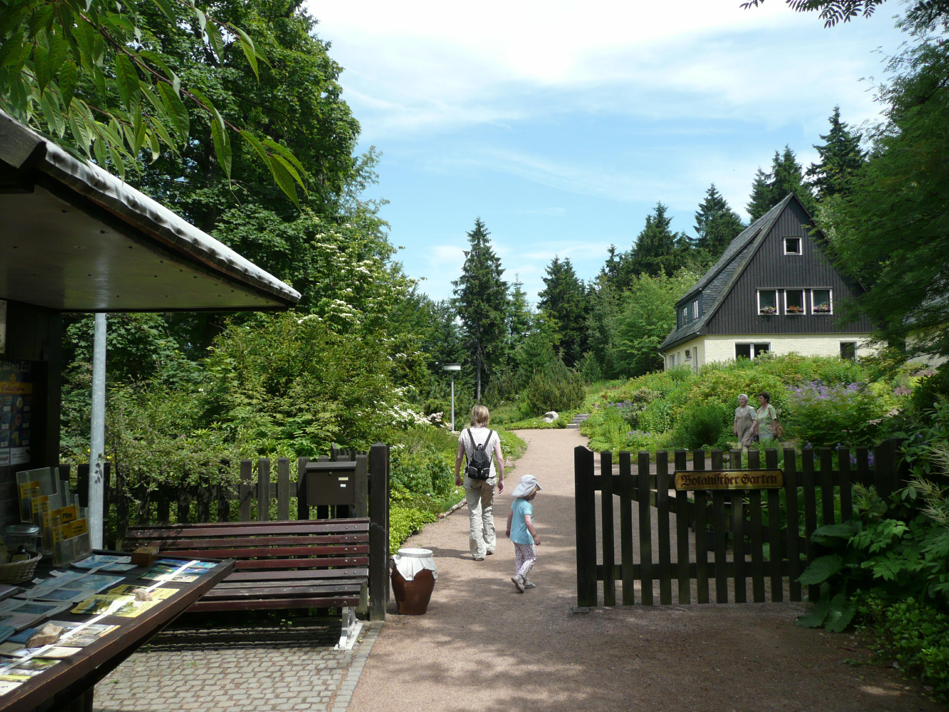 This image shows the entrance of the botanic garden in Schellerhau near Altenberg in Saxony, Germany.